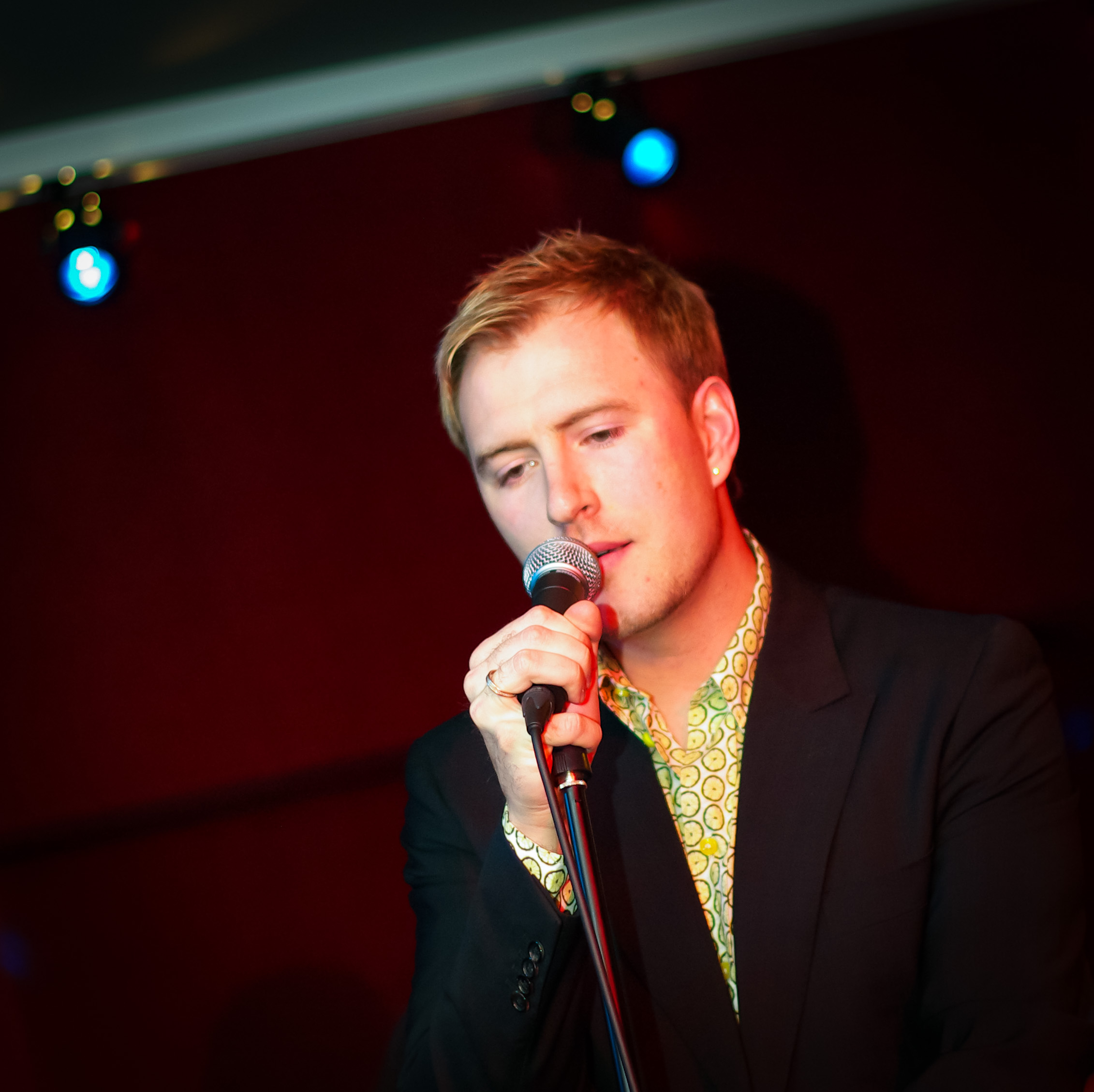 Jānis Stībelis - Singer / Musician / Song writer